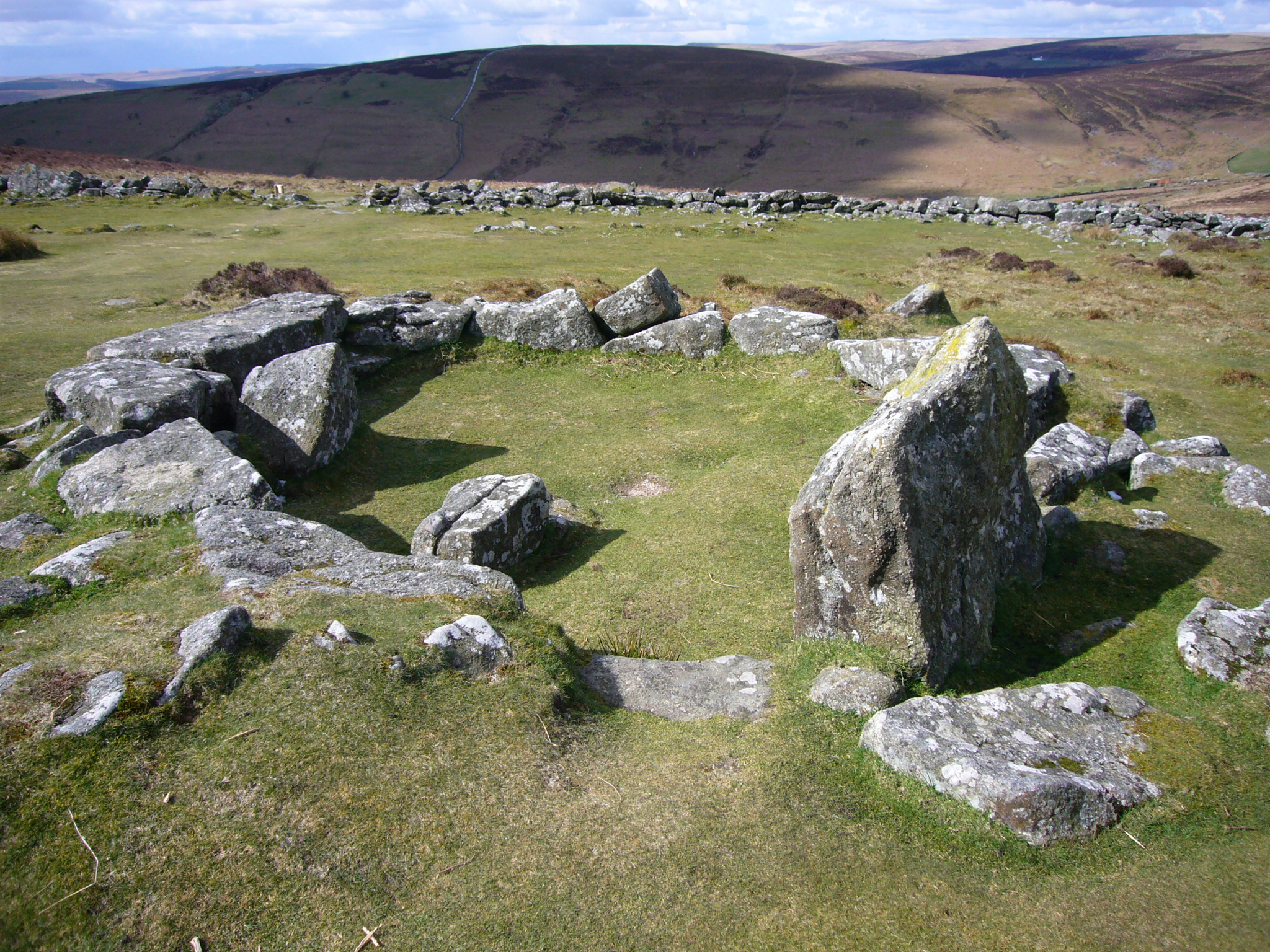 A hut circle at Grimspound (a late Bronze Age settlement) on Dartmoor.